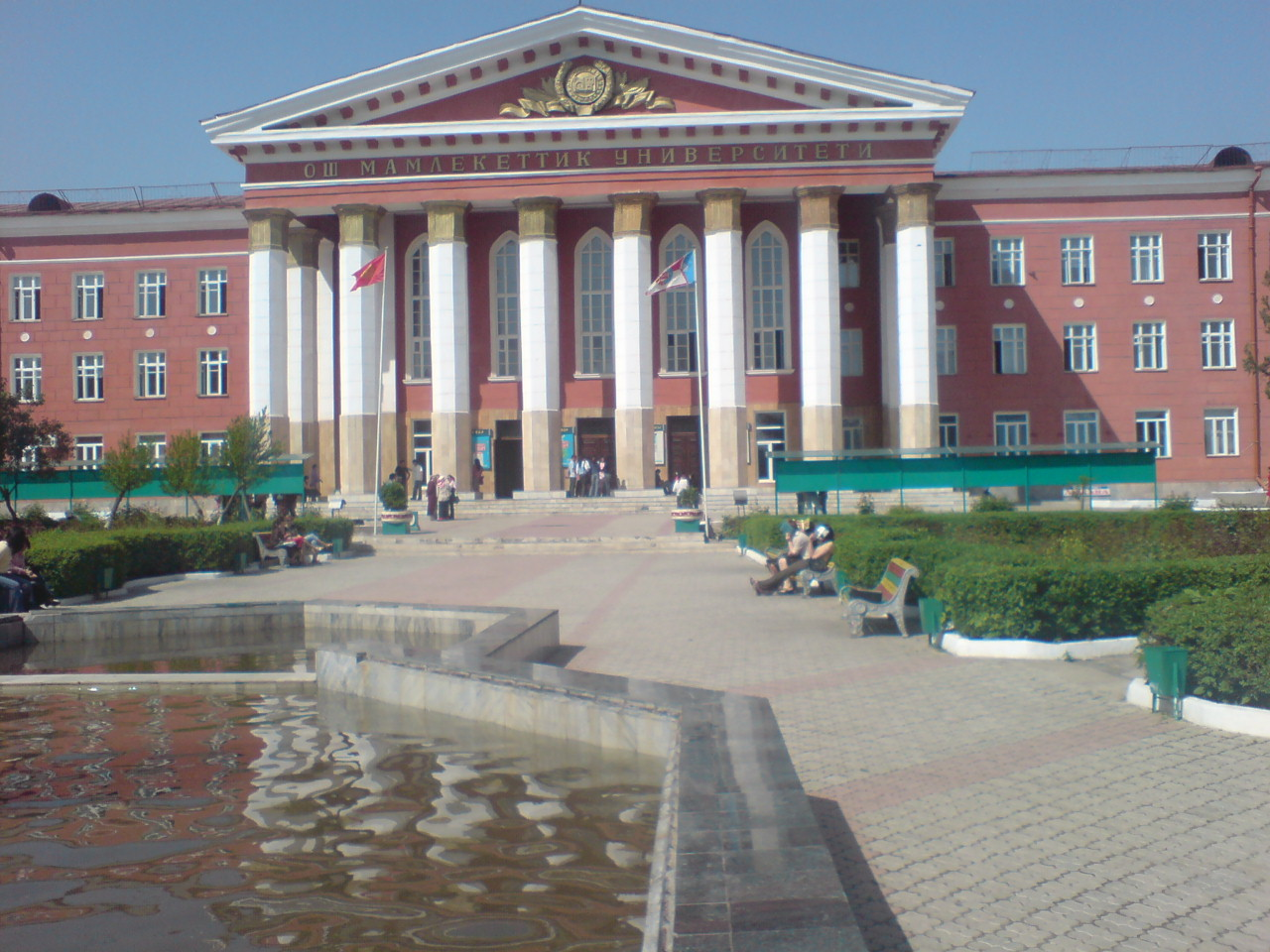 Osh State University,Main campus